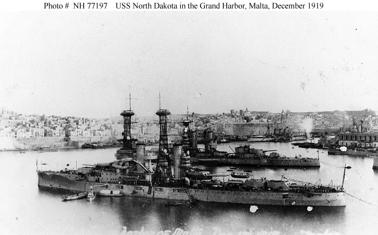 USS_North_Dakota_(BB-29) in Grand Harbor, Malta on 17 December 1919